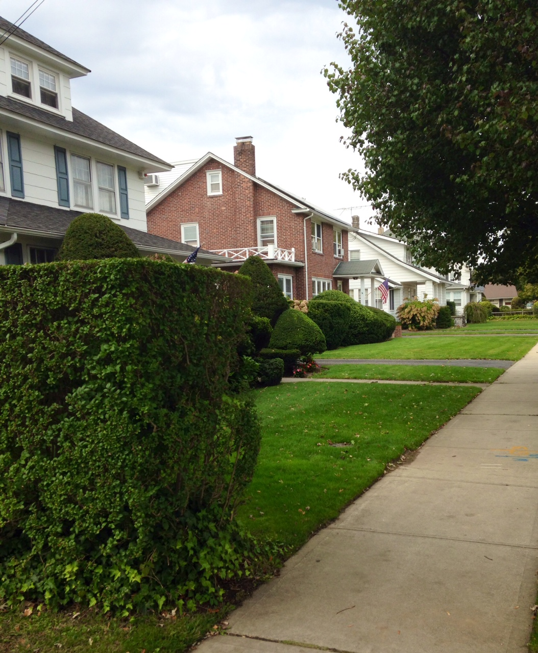 A residential street in Babylon Village